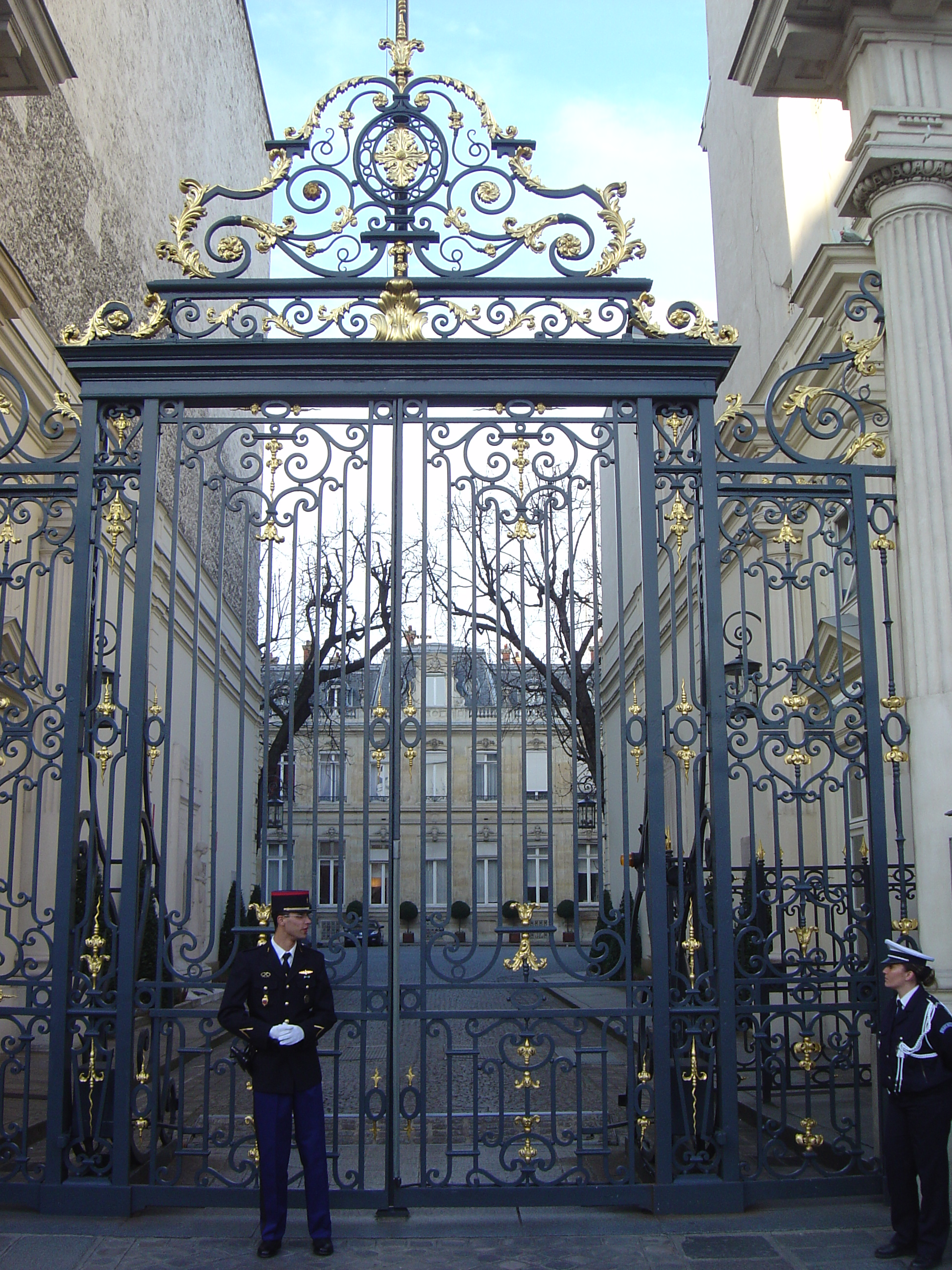 Place Beauvau (ministry of the interior) photo by myself, March 19, 2005